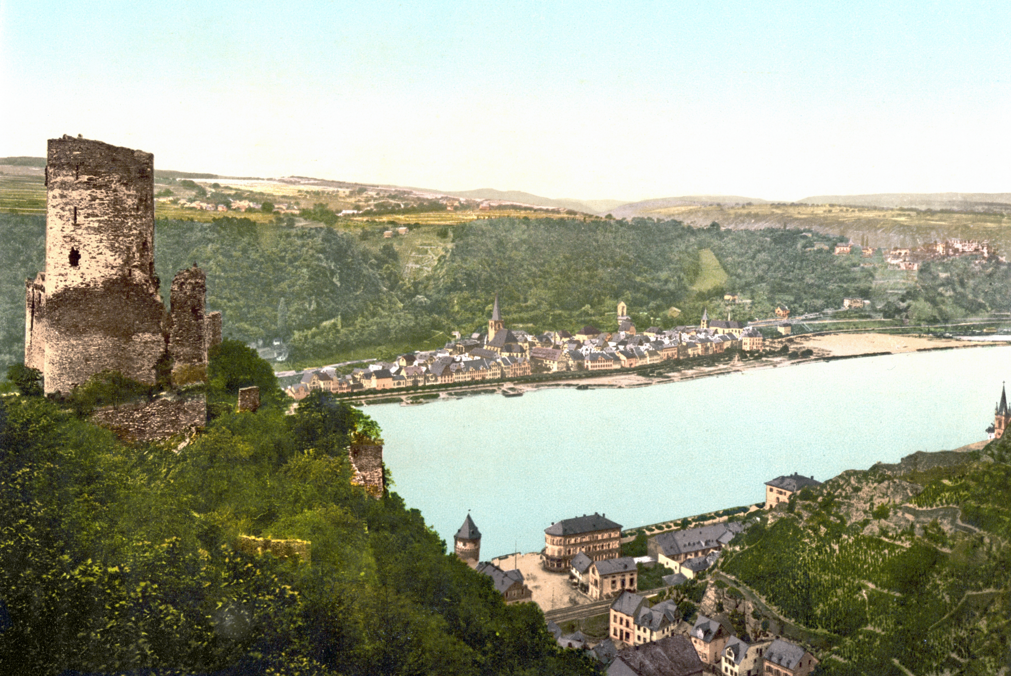 Castle Katz